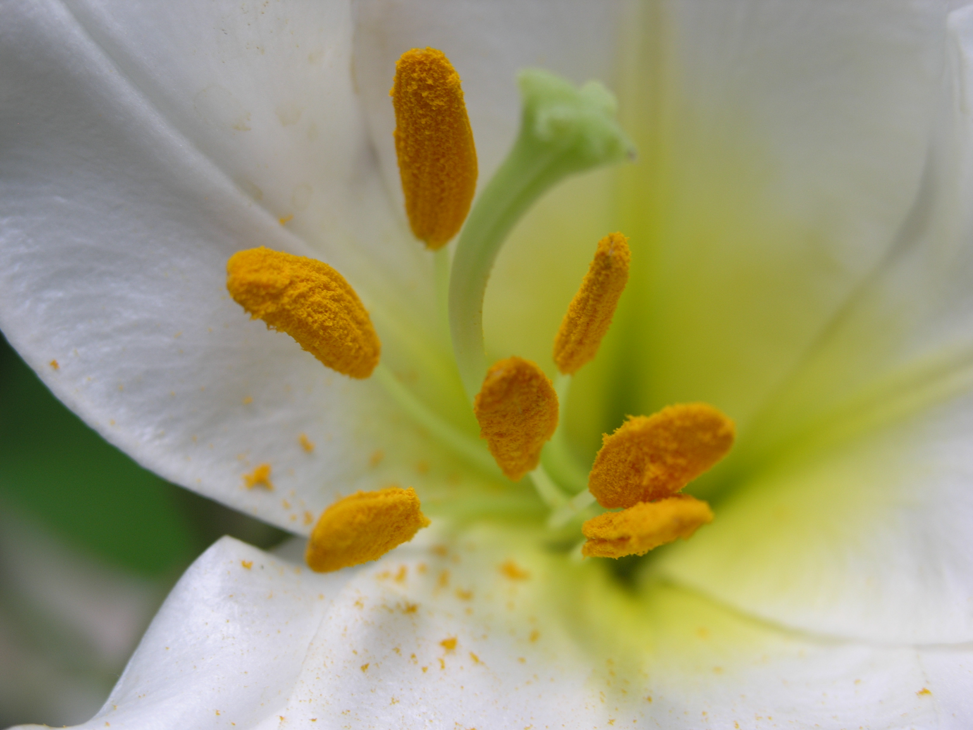 Inner part of a flower with stamens in the foreground